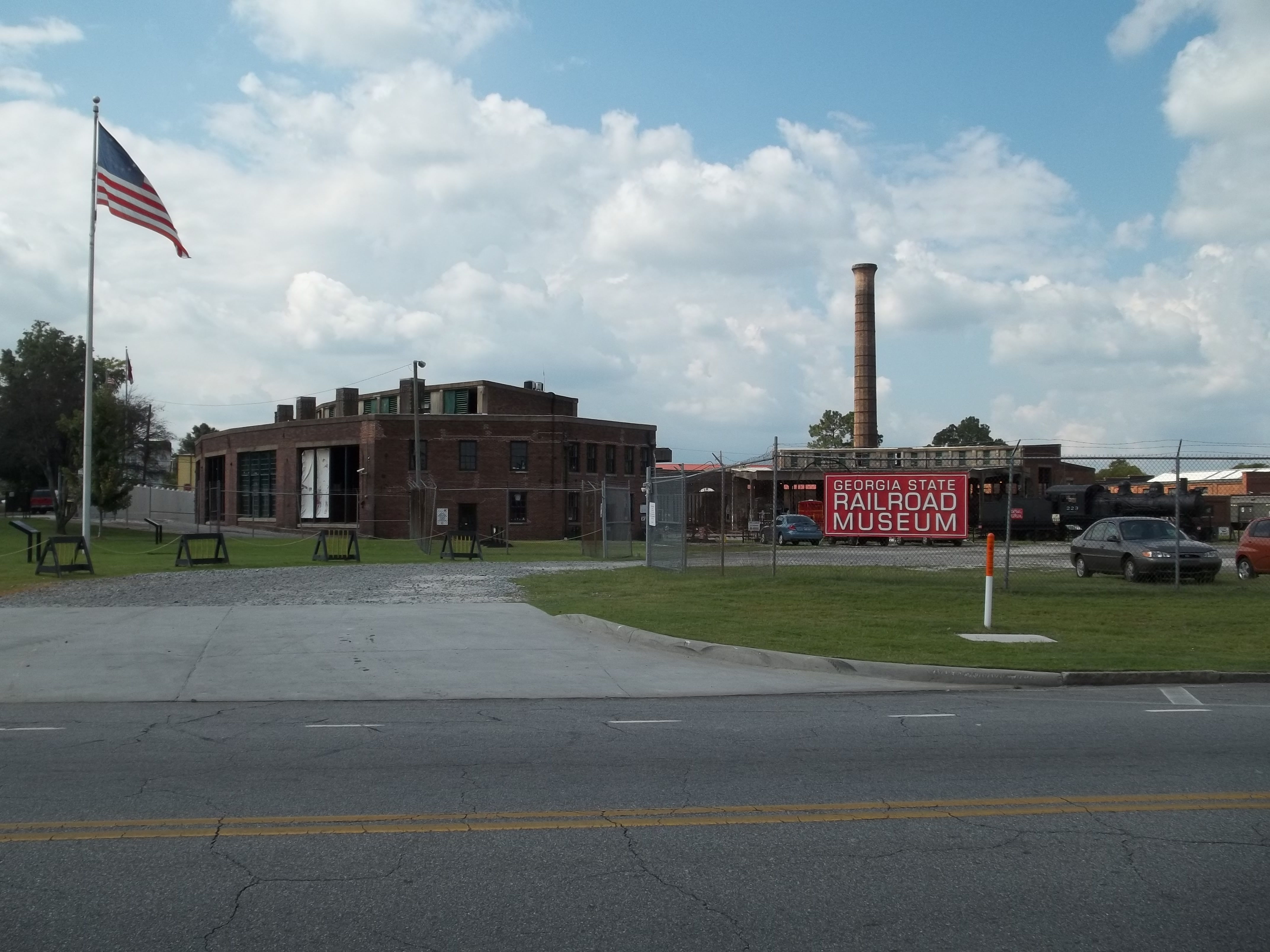 Savannah, Georgia: Central of Georgia Railroad: Savannah Shops and Terminal Facilities, now home of the Roundhouse Railroad Museum